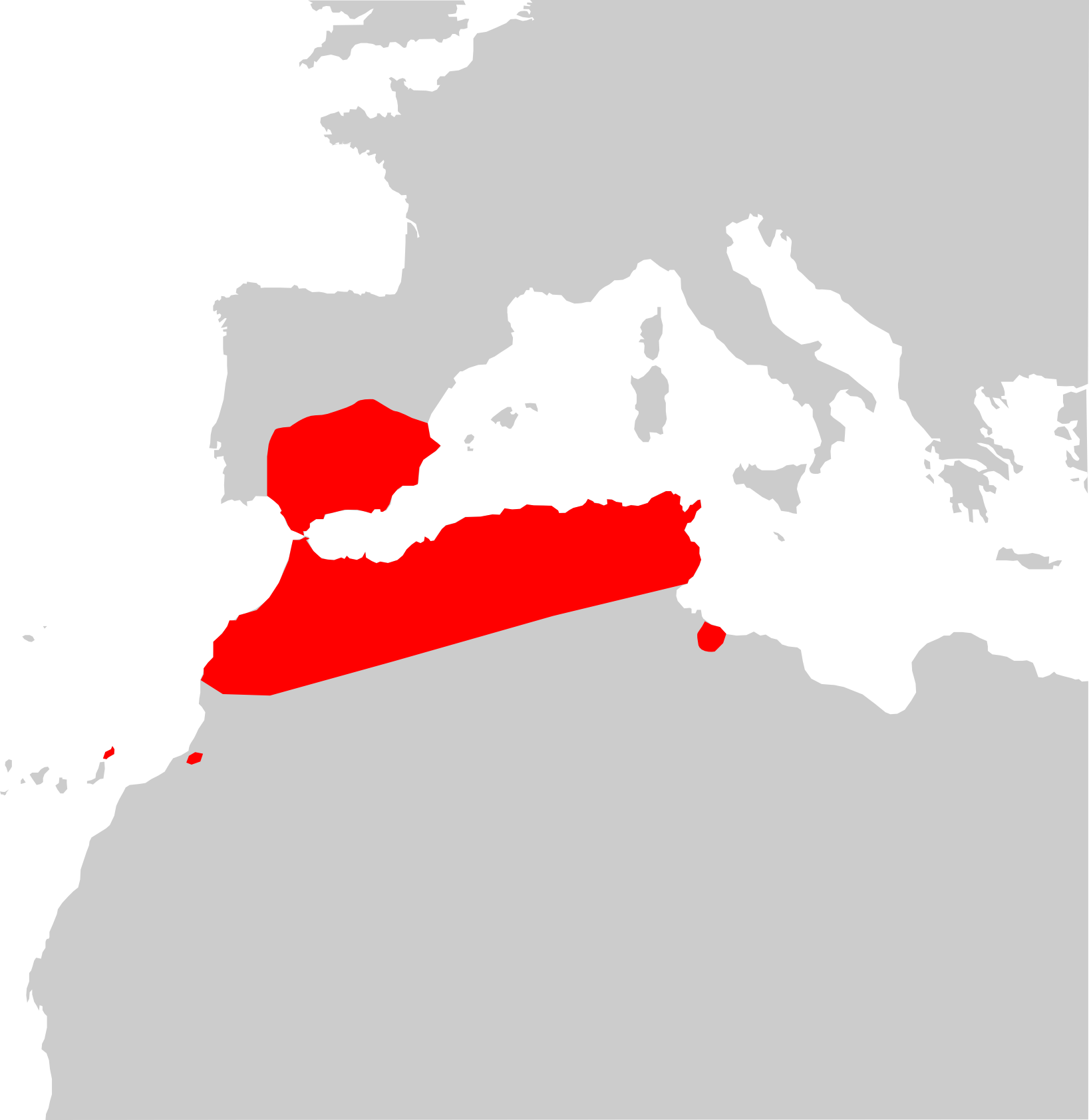 Eptesicus isabellinus range map.